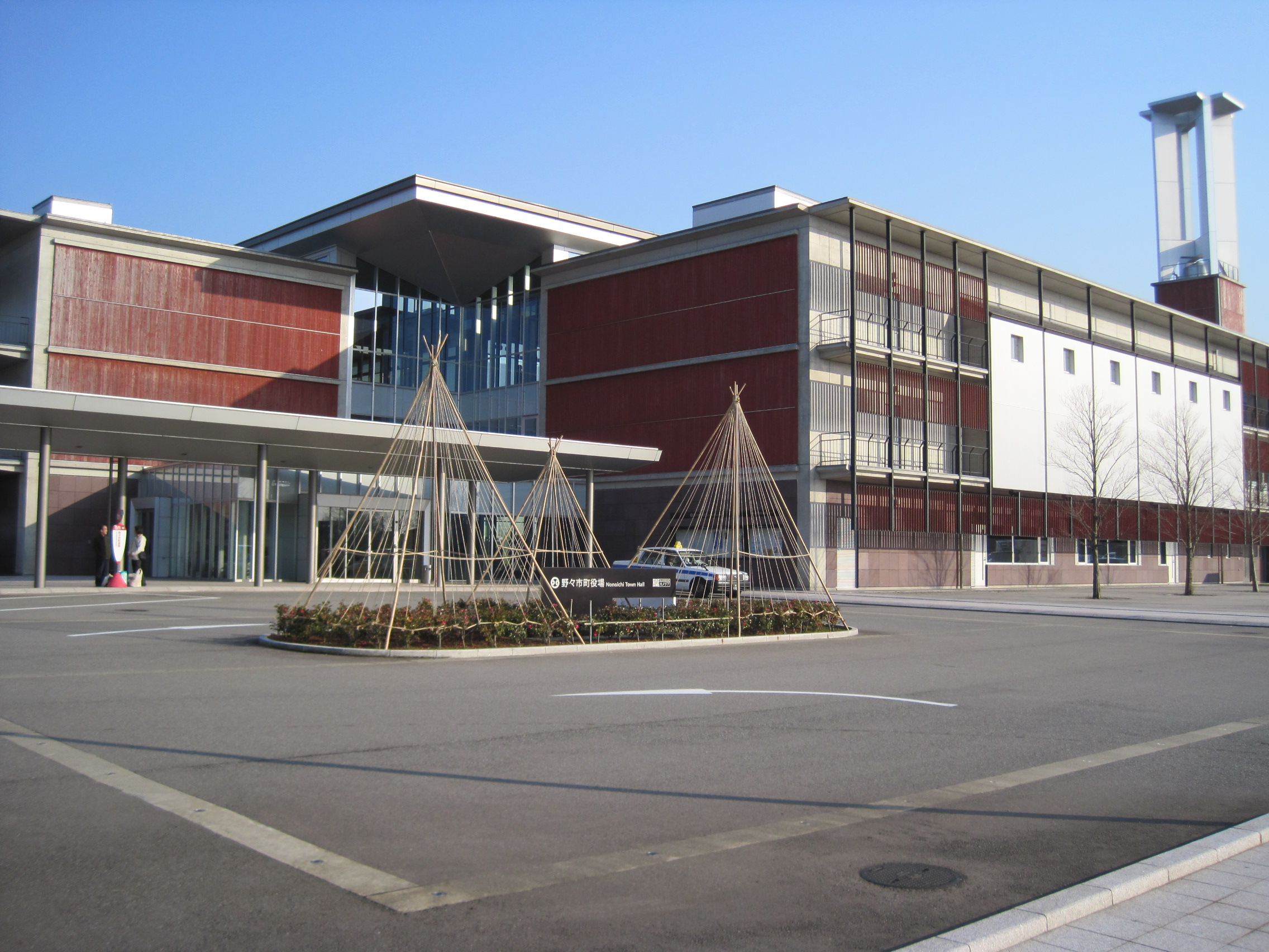 Nonoichi City Office(Nonoichi city, Ishikawa prefecture, Japan)